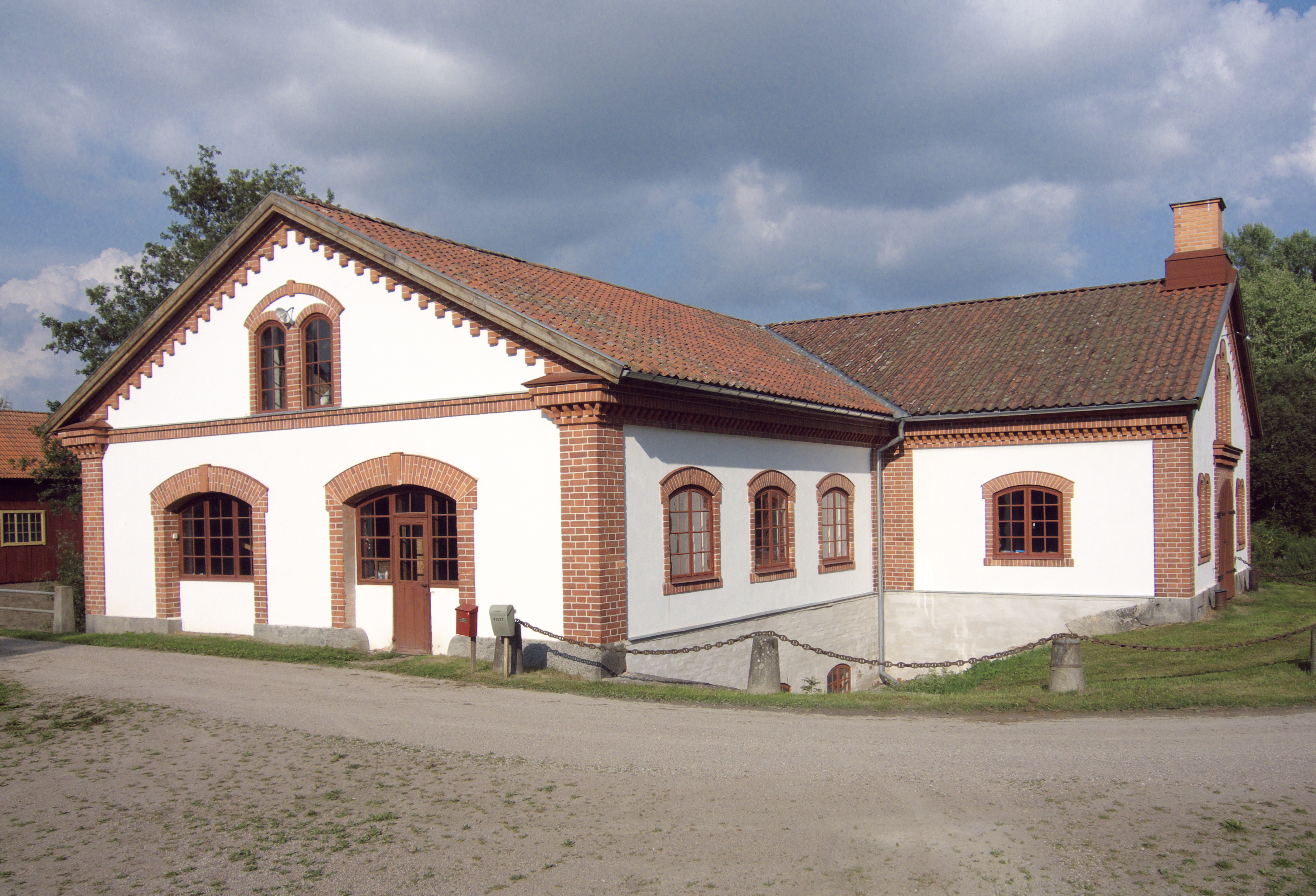 Härnevi watermill, listed building in Enköping municipality